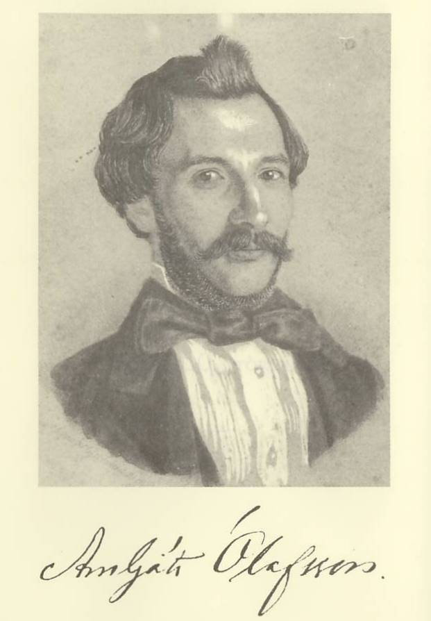 Arnljótur Ólafsson, member of Alþingi